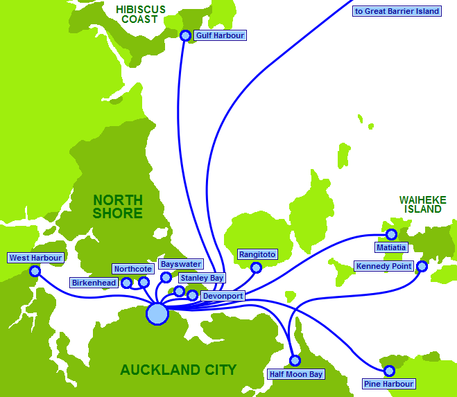 Map of ferry routes in Auckland, New Zealand as of 2007 (still reasonably good as of 2011). Not all tourist ferries shown (i.e. missing summer / semi-regular ferries to Tiritiri Matangi & Coromandel Town.